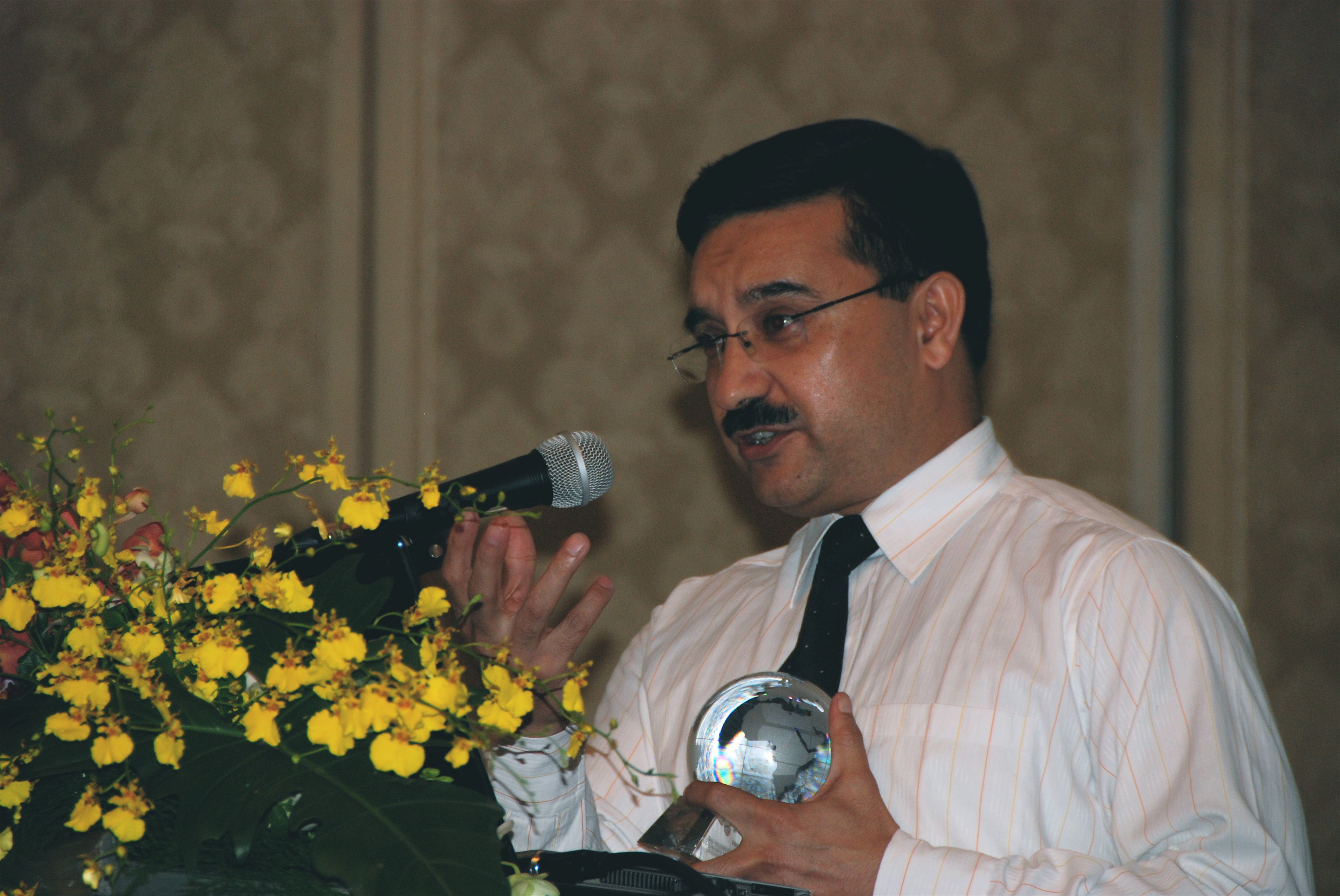 Photograph clicked at SRNT conference at Bangkok, Thailand during the award ceremony. Social Activist Hemant Goswami after receiving the award.